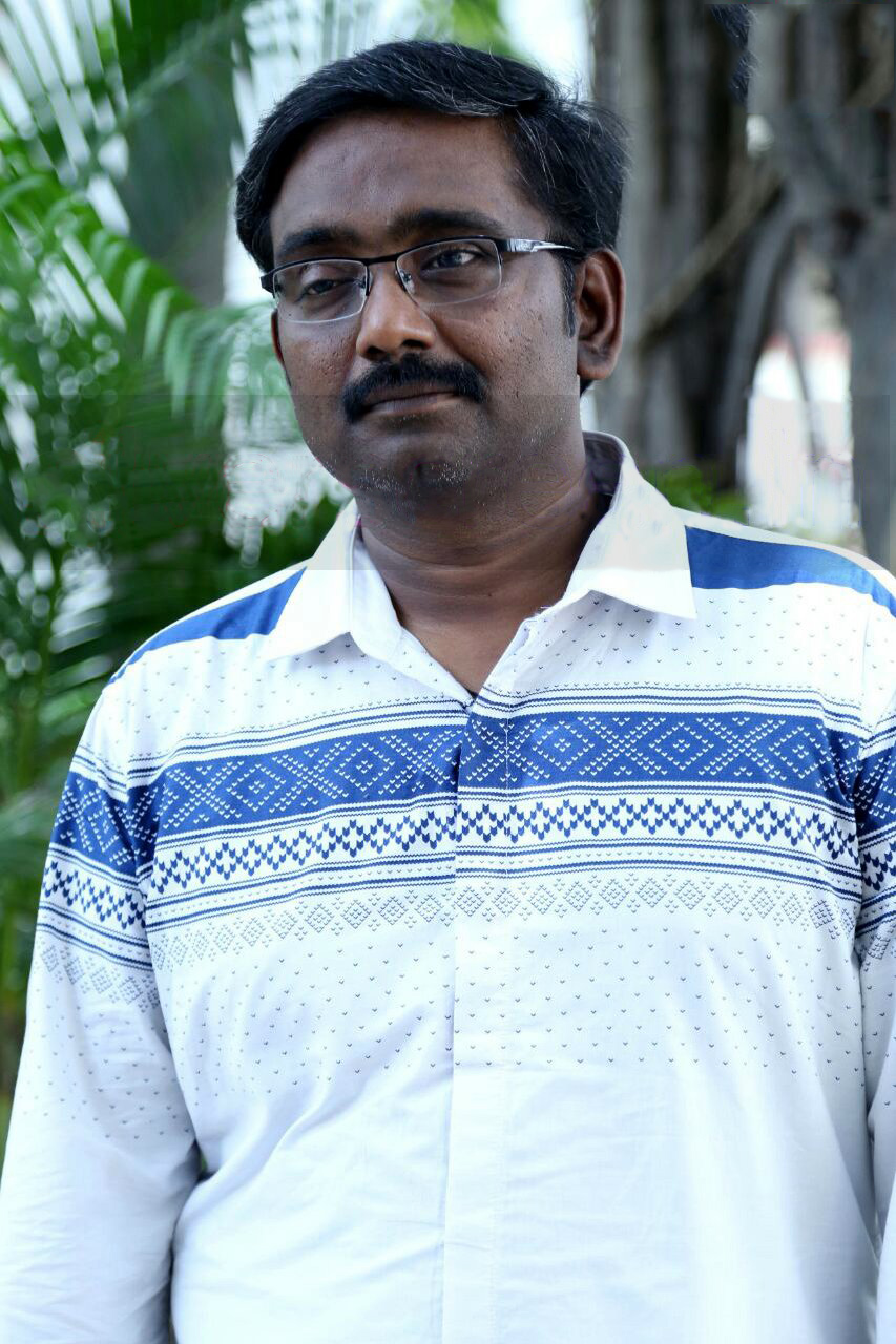 Vasantha Balan at the Kaaviya Thalaivan Press Meet